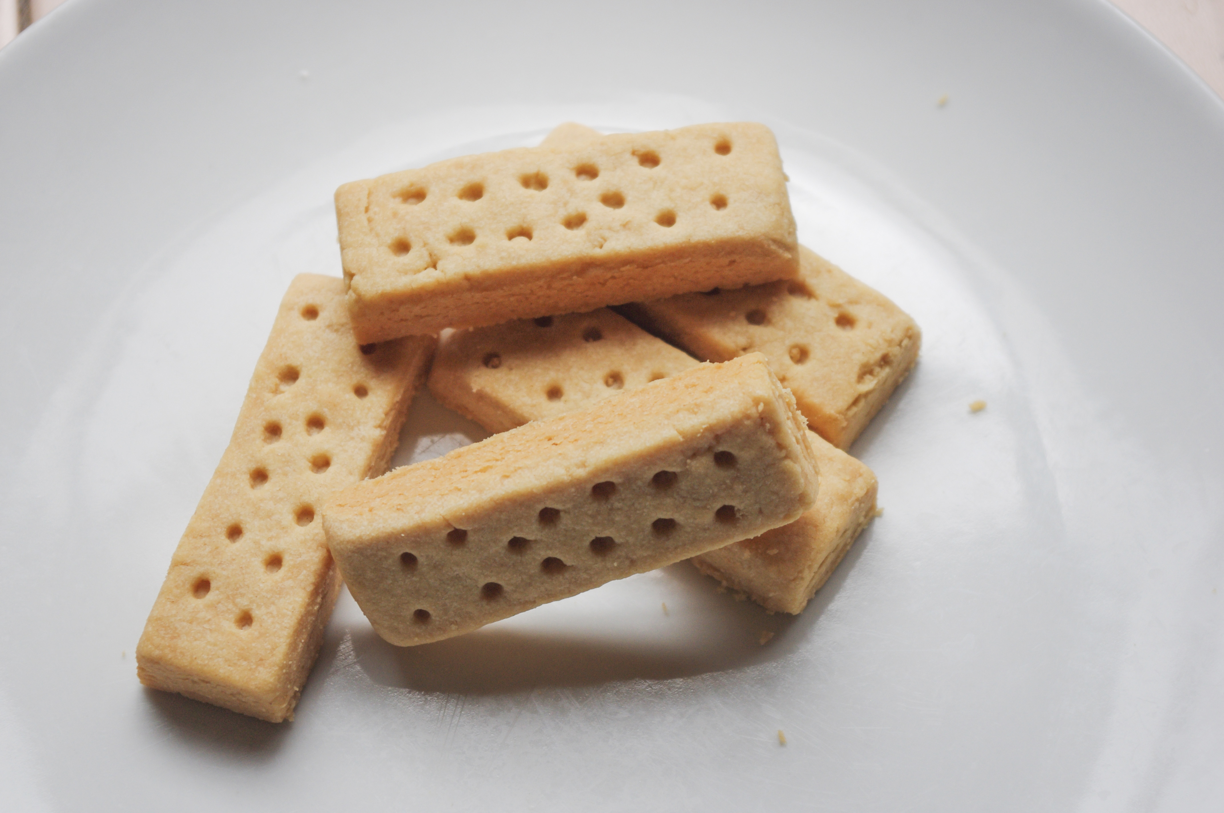 Walkers Shortbread cookies, a type of cake (American